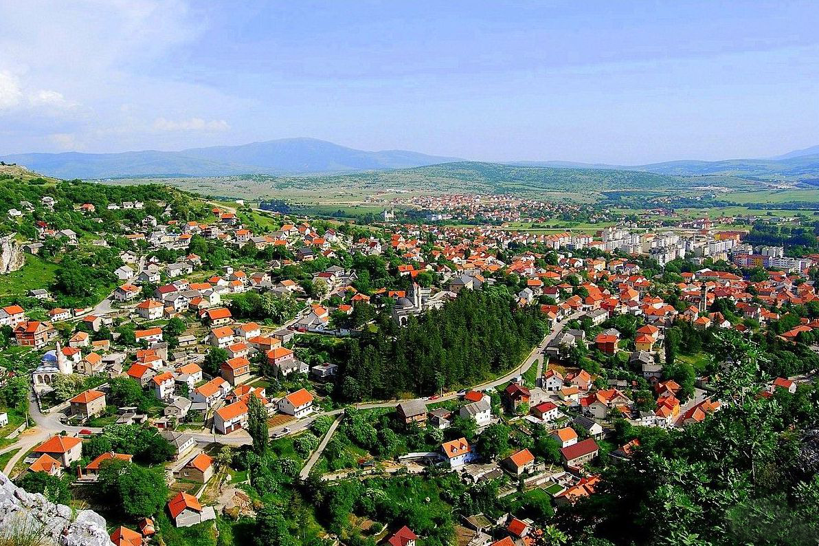 Panorama photo of Livno